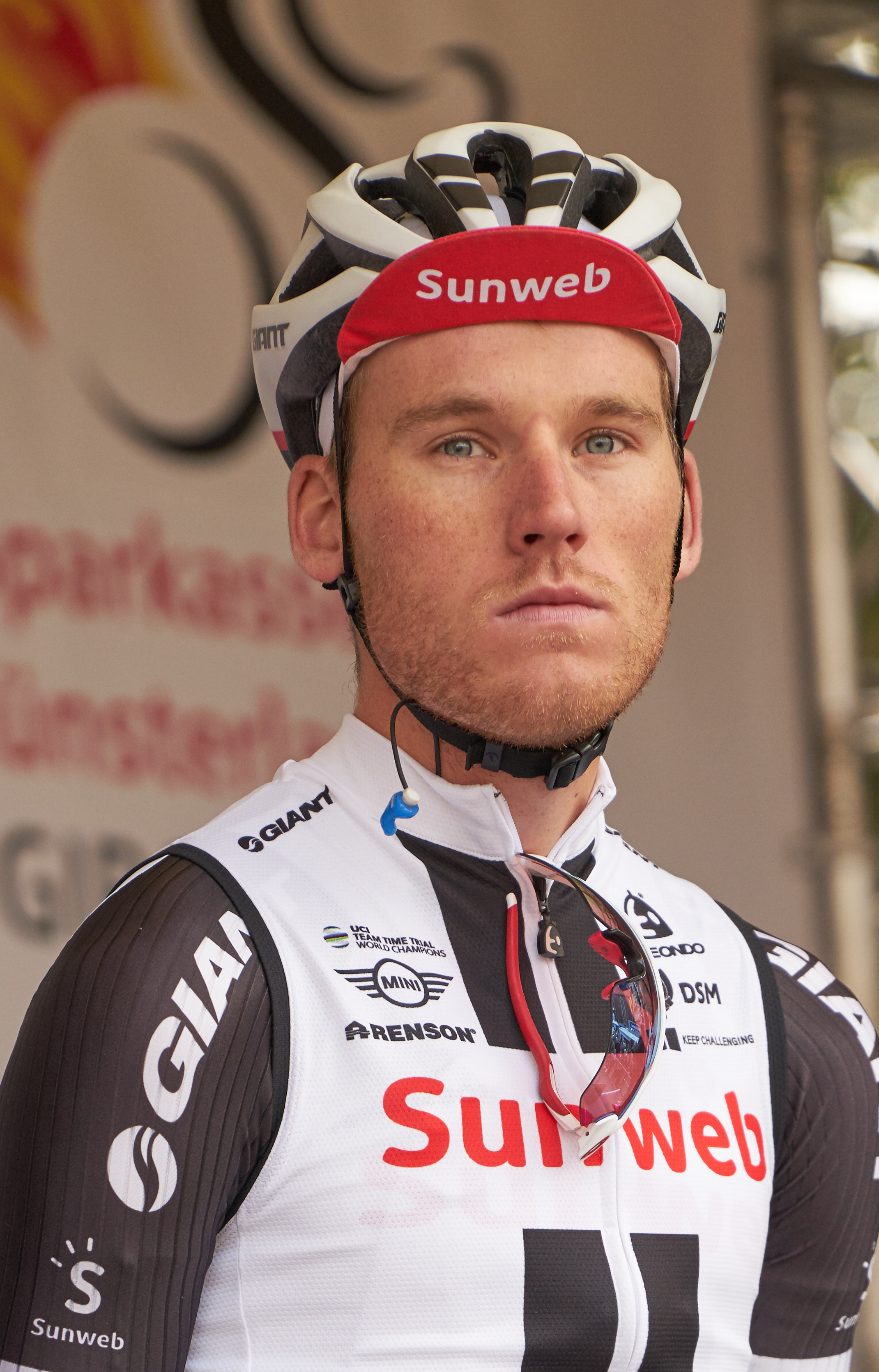 Münsterland Giro 2018, Team Sunweb in Coesfeld (start location).